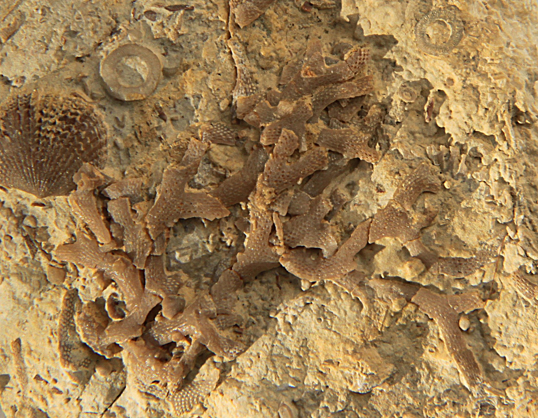 A Pachydictya bromidensis moss animal, Class Stenolaemata, Order Cryptostomata, Family Rhinidictyidae, collected at the Pooleville member, Bromide Formation, Criner Hills, Carter County, Oklahoma, USA, from the early Upper Ordovician (Sandbian)